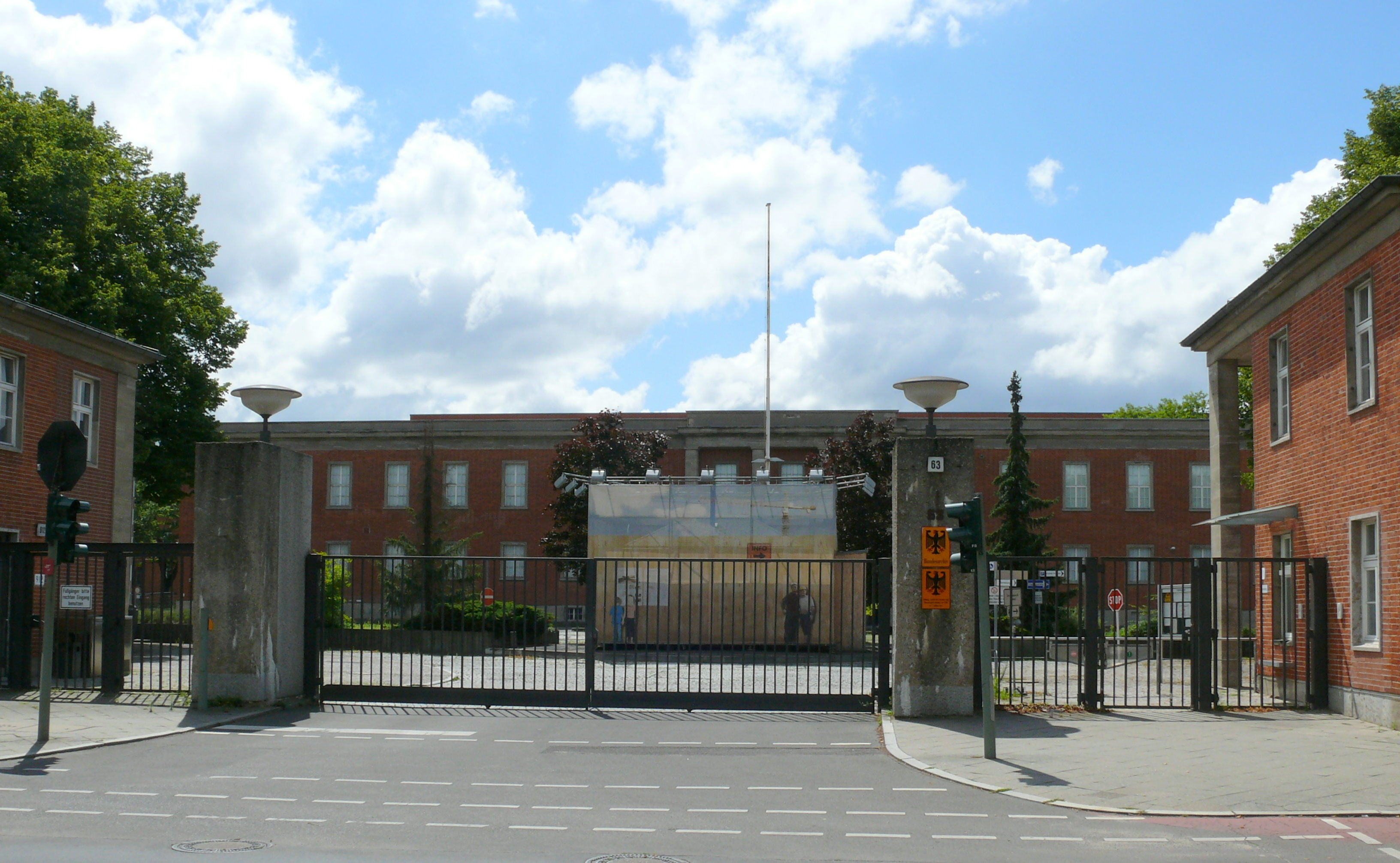 Berlin-Lichterfelde Finckensteinallee Kadettenanstalt